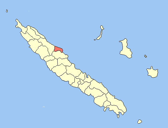 Created map myself.